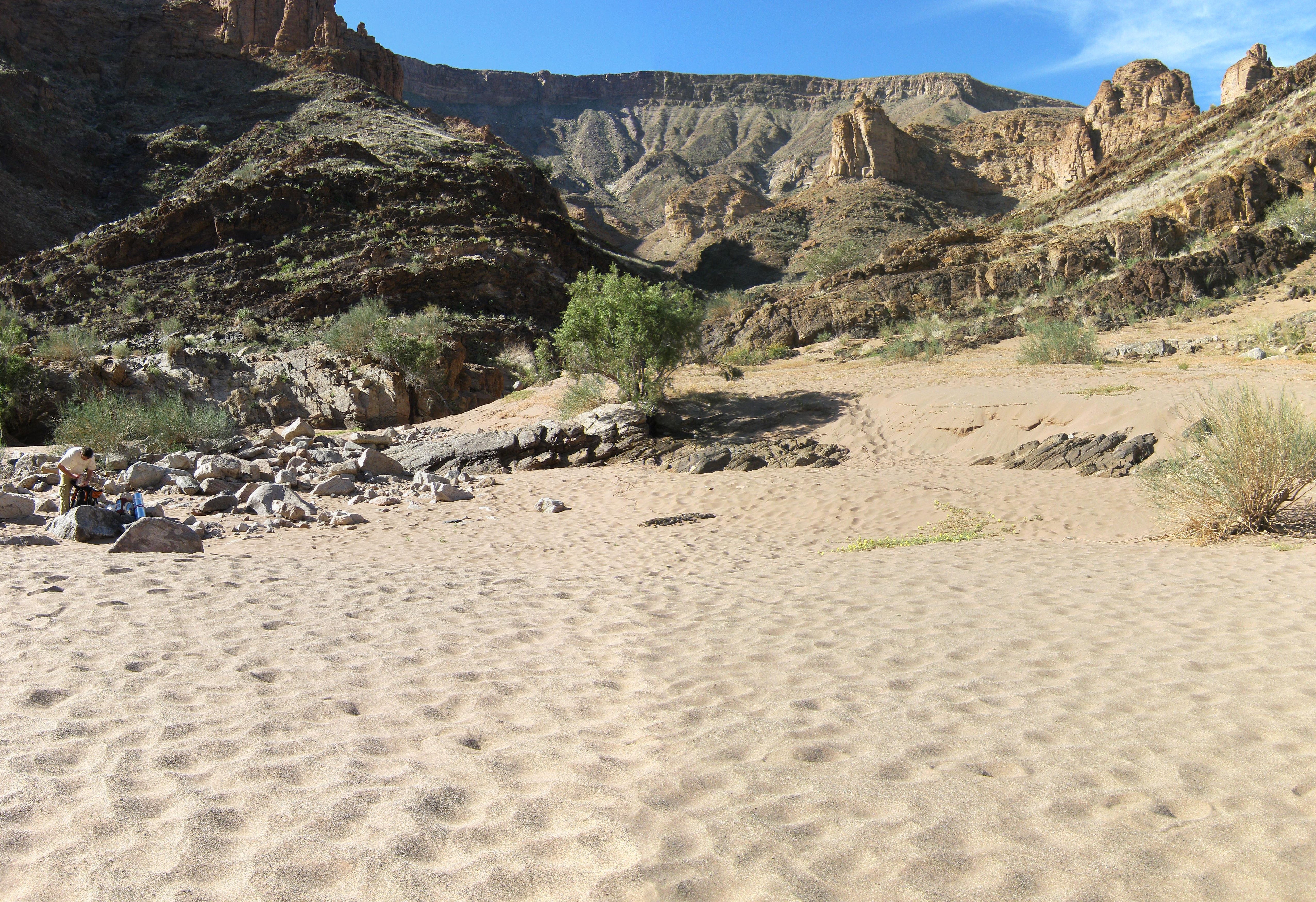 Sandy beach